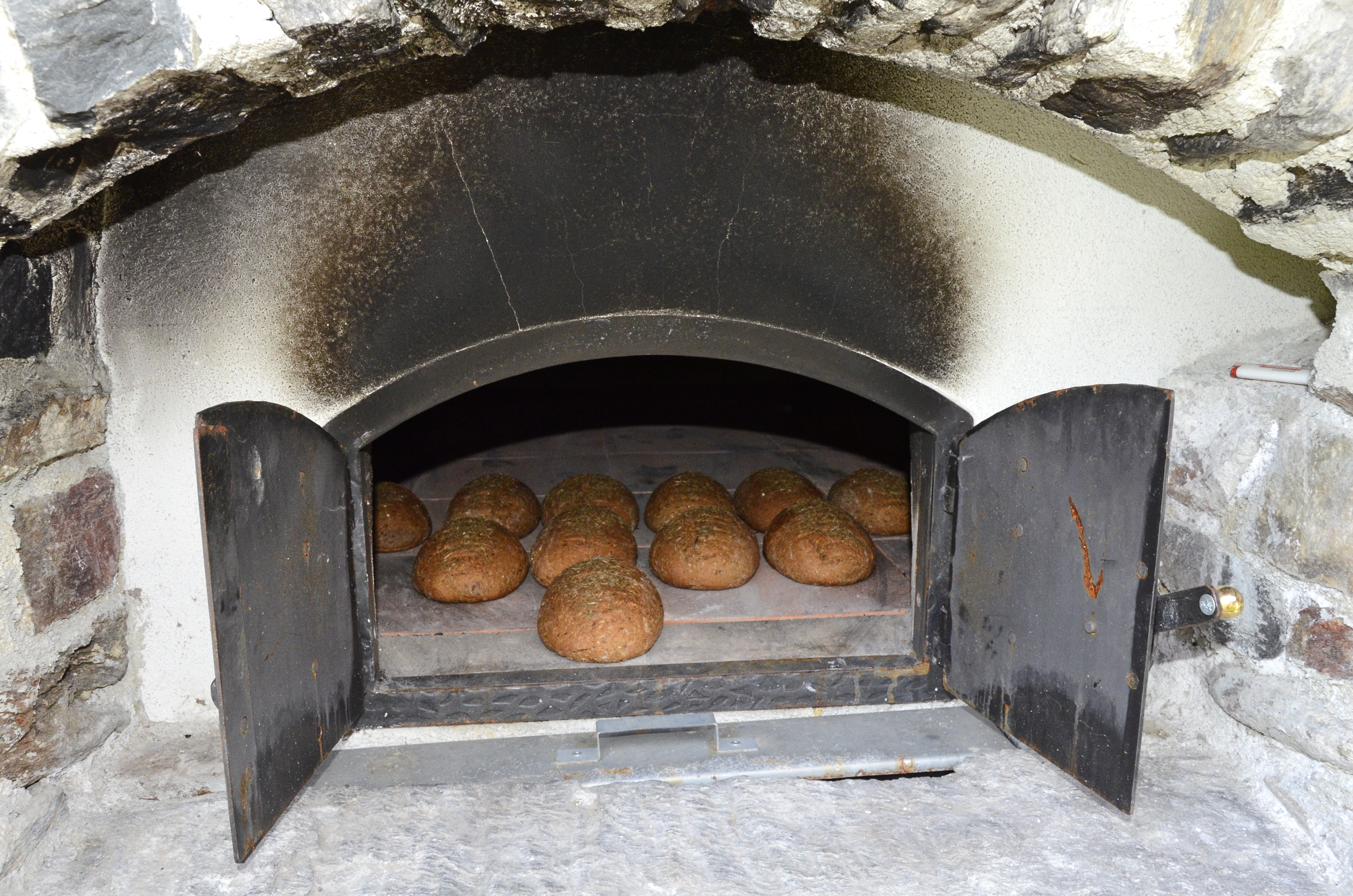 Baked breads inside the traditional oven on Stabentheiner Hof at Stabenthein #1, Liesing, municipality Lesachtal, district Hermagor, Carinthia / Austria / EU